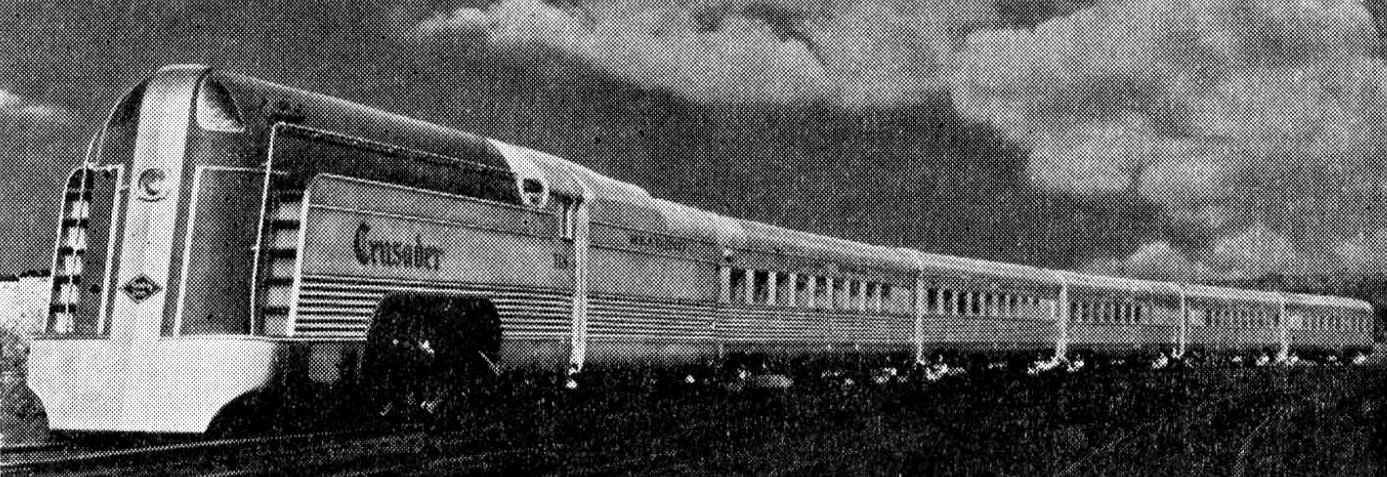 Postcard photo of the Reading Railroad's streamlined train The Crusader.